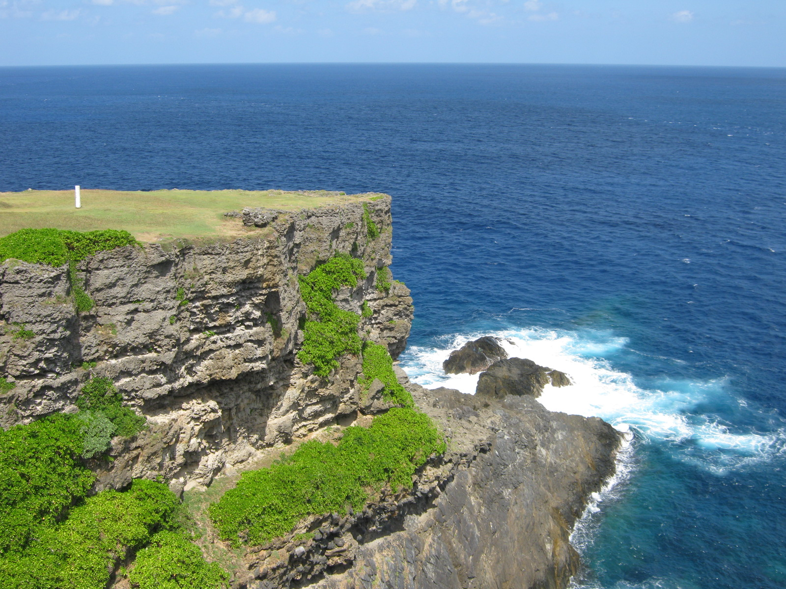 cliffs of Okinoerabujima.